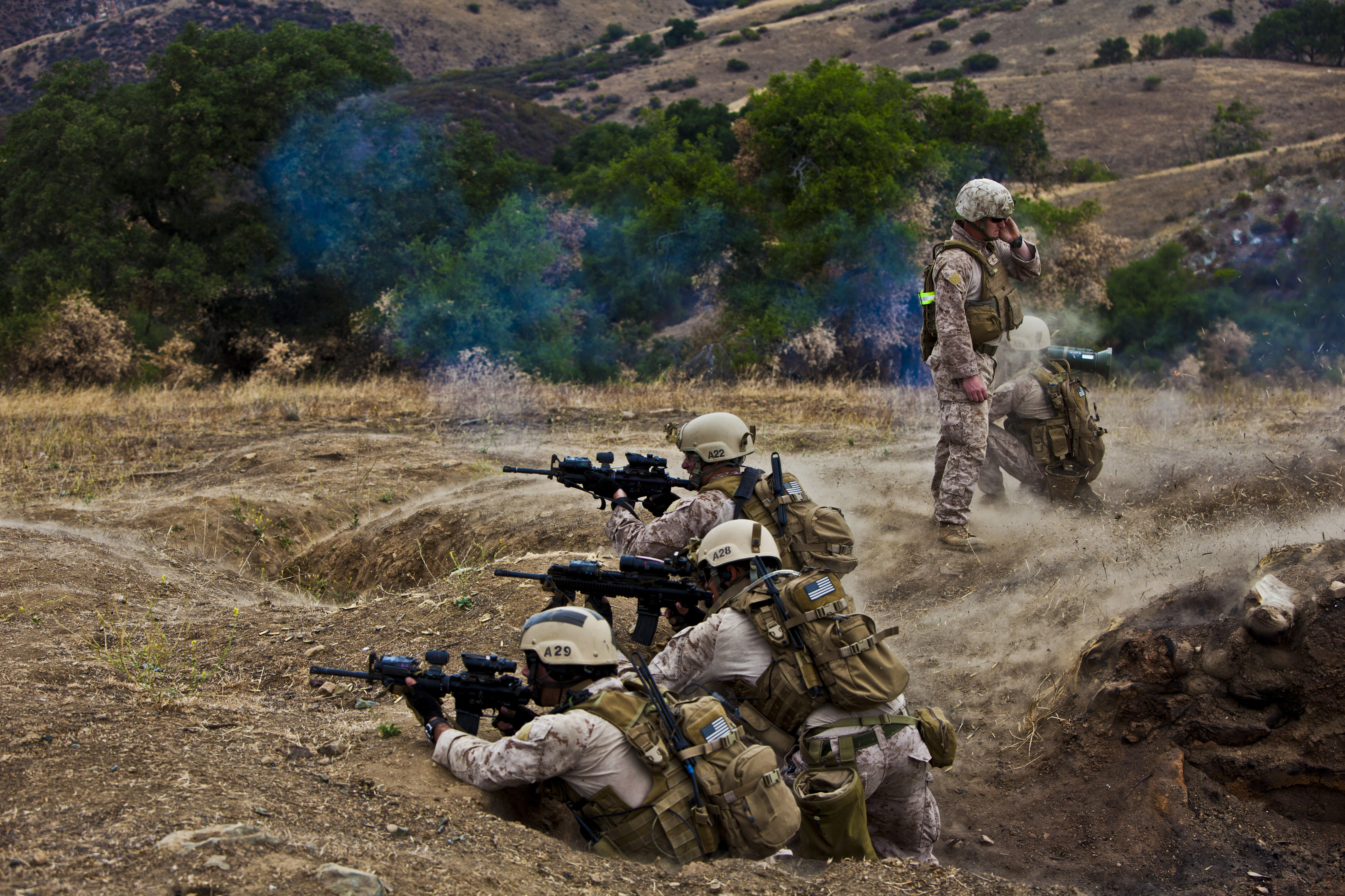 U.S. Marine from 1st Reconnaissance Battalion (1st Recon Bn) engage targets with small arms fire during a company assault on range 800 aboard Camp Pendletion, Cailf., July 15, 2013. 1st Recon Bn is preparing for an upcoming deployment with the 11th Marine Expeditionary Unit. (U.S. Marine Corps photo by Lance Cpl. Ismael E. Ortega, 1st Marine Division/Released) Date Taken:07.15.2013 Date Posted:07.16.2013 12:37 Photo ID:972693 VIRIN:130711-M-RD023-355 Resolution:5616x3744 Size:5.71 MB Location:CAMP PENDLETON, CA, US Read more